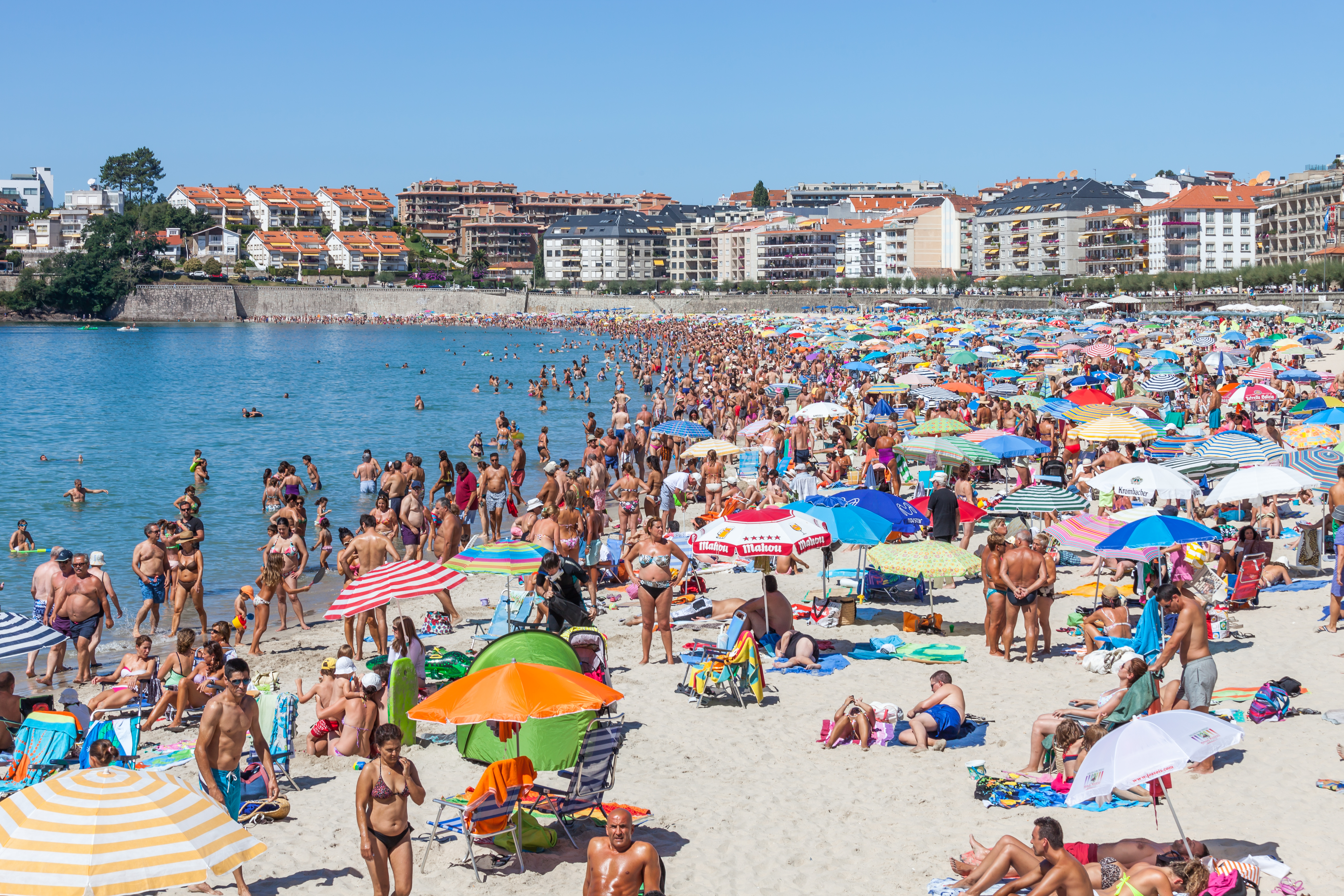 Beach of Silgar, Sanxenxo, Galicia (Spain).